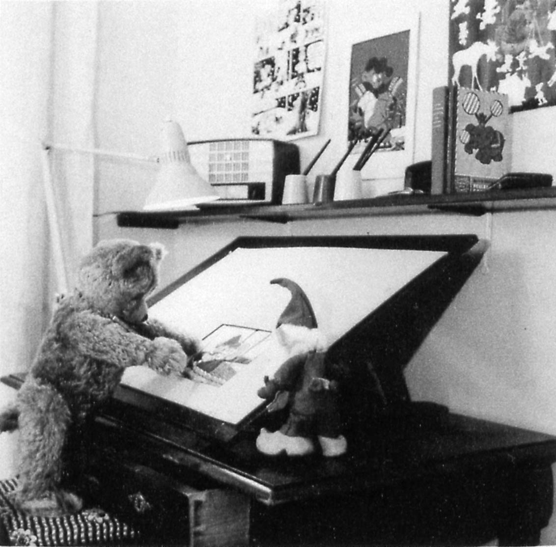 Still from the production of Rune Andréasson's (1925–1999) animated TV series "Nalle ritar och berättar" (1950s), Gothenburg. Image shows the main character Nalle and supporting character Hustomten.